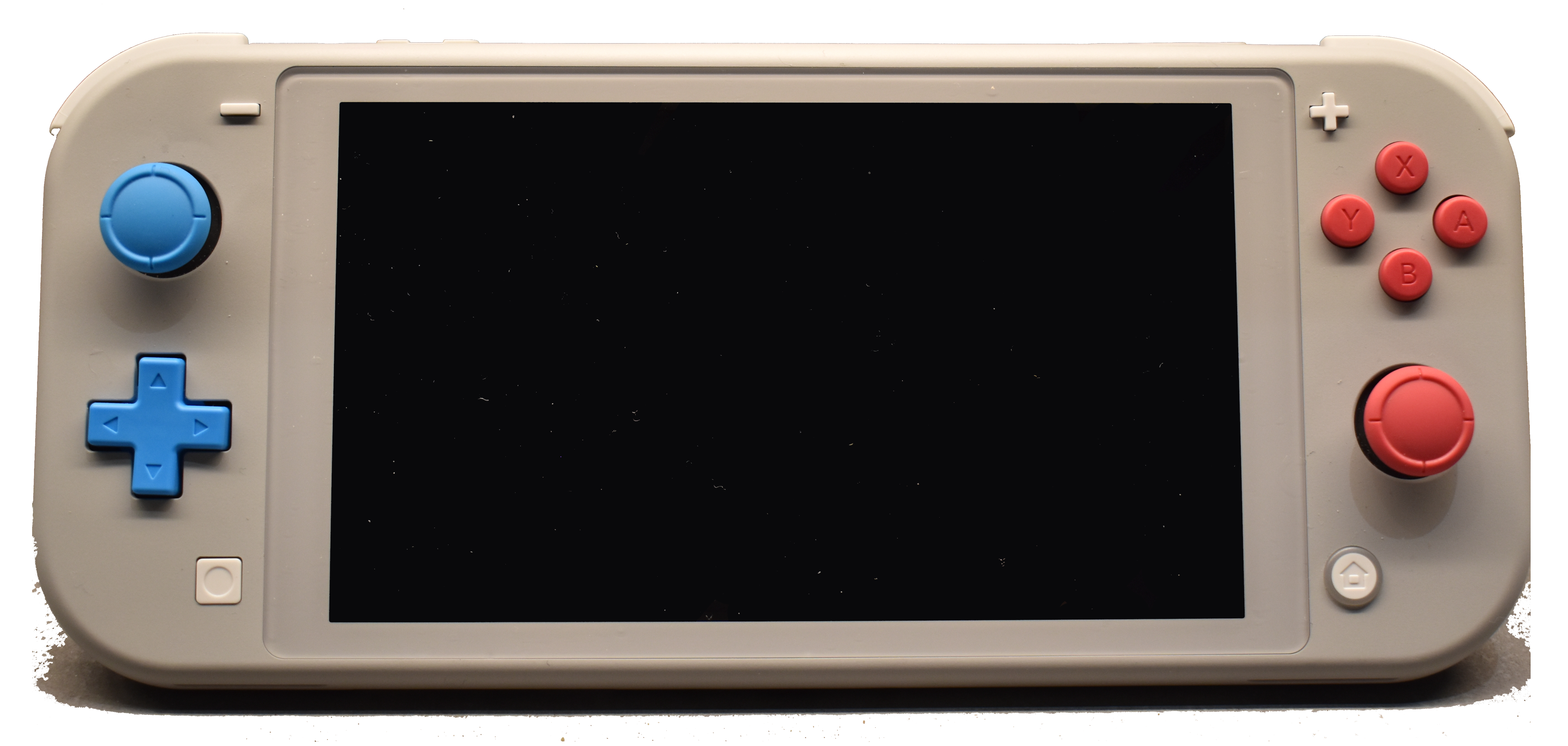 Pokémon Zacian and Zamazenta edition